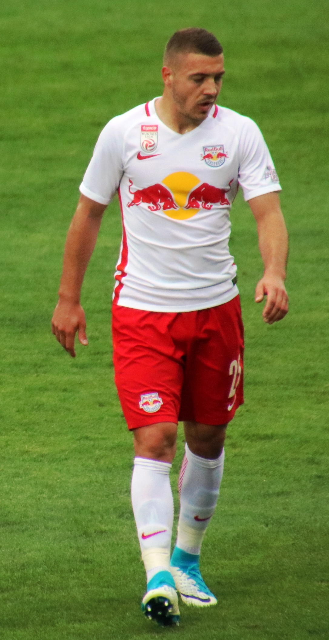 Austrian Bundesliga league match